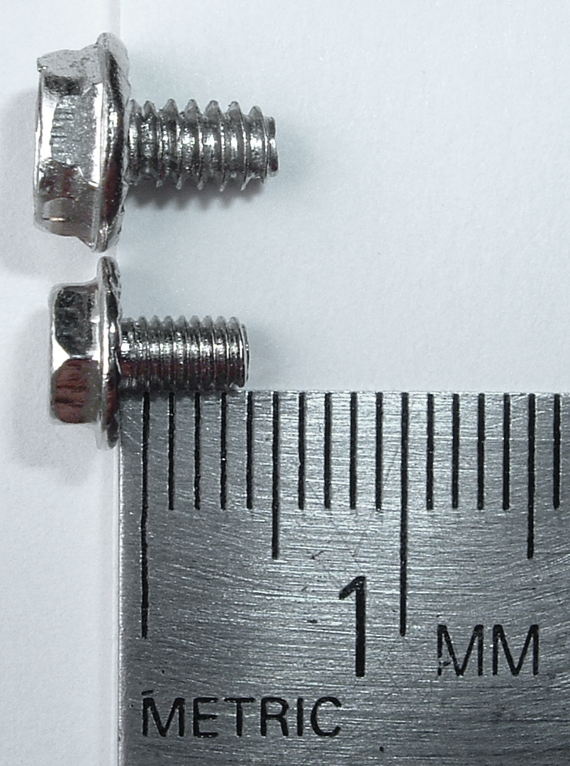 On the top is a 6-32 UTS screw. In the middle is an M3 screw based on the ISO metric screw thread standard. Both have a hexagonal cap with a Phillips head. The screw thread sizes of both of these are commonly used in computer cases. On the bottom is a ruler positioned to indicate that the thread pitch (distance between adjacent threads) of an M3 screw is 0.5 millimeters. The pitch of a 6-32 screw is 1/32 inches.